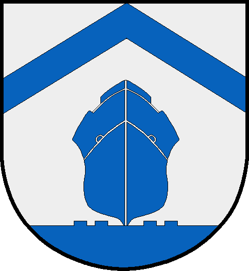 Coat of arms of the municipality Schacht-Audorf in Schleswig-Holstein, Germany